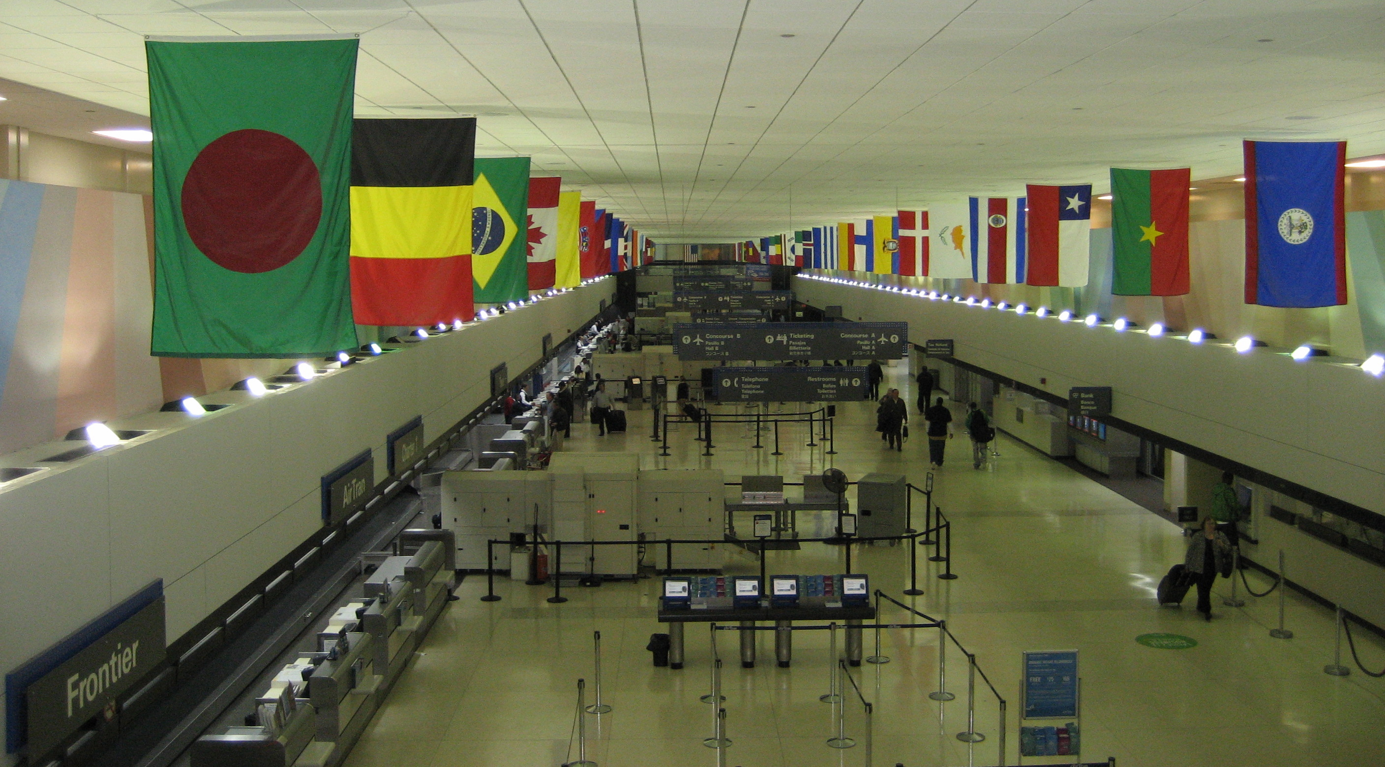 New Orleans Armstrong Airport terminal, Kenner, Louisiana